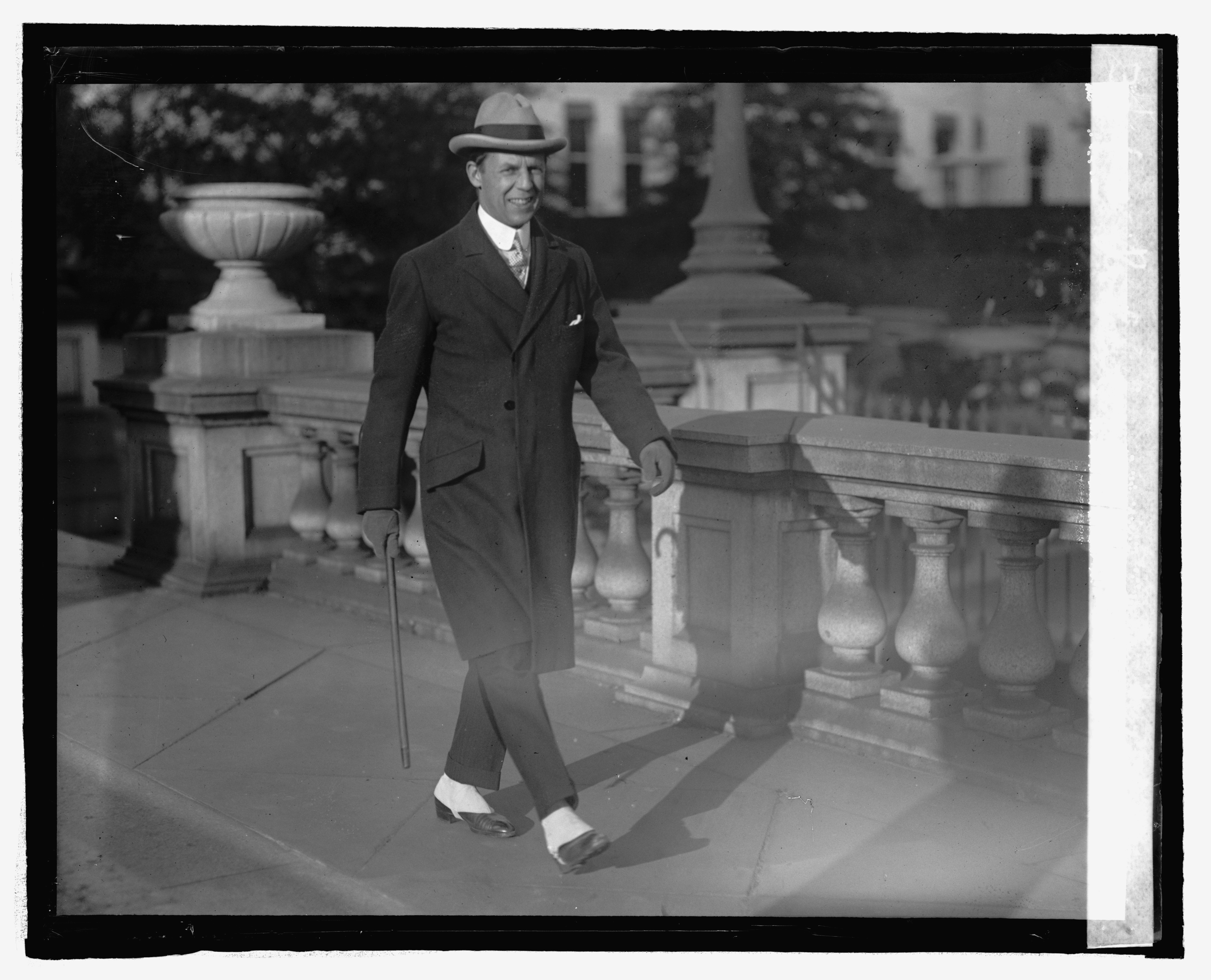 Robert Woods Bliss, 10/21/24